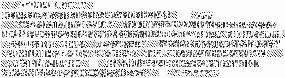 Barthel's tracing of rongorongo tablet S, side b